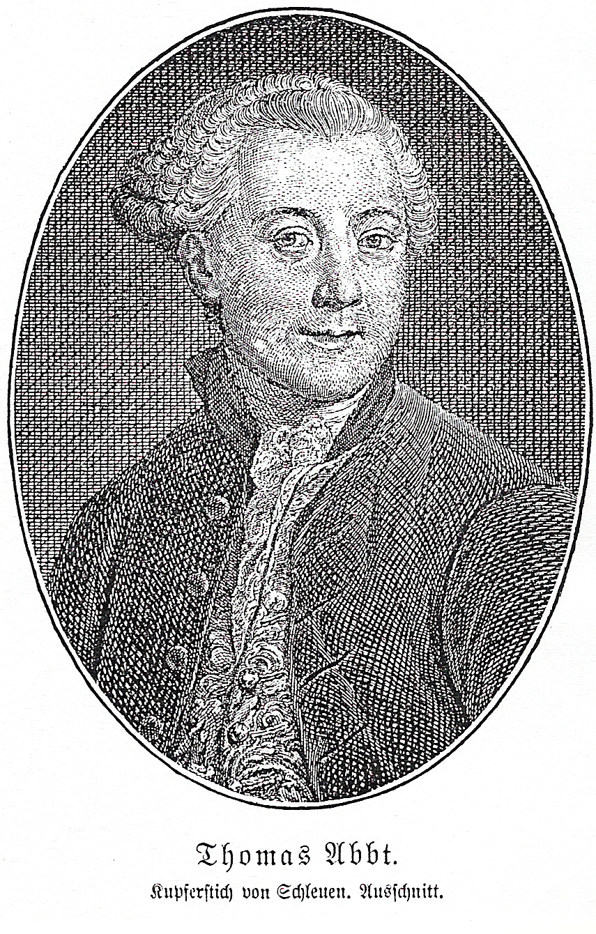 Thomas Abbt (1738-1766). Depicted person: Thomas Abbt – mathematician, writer